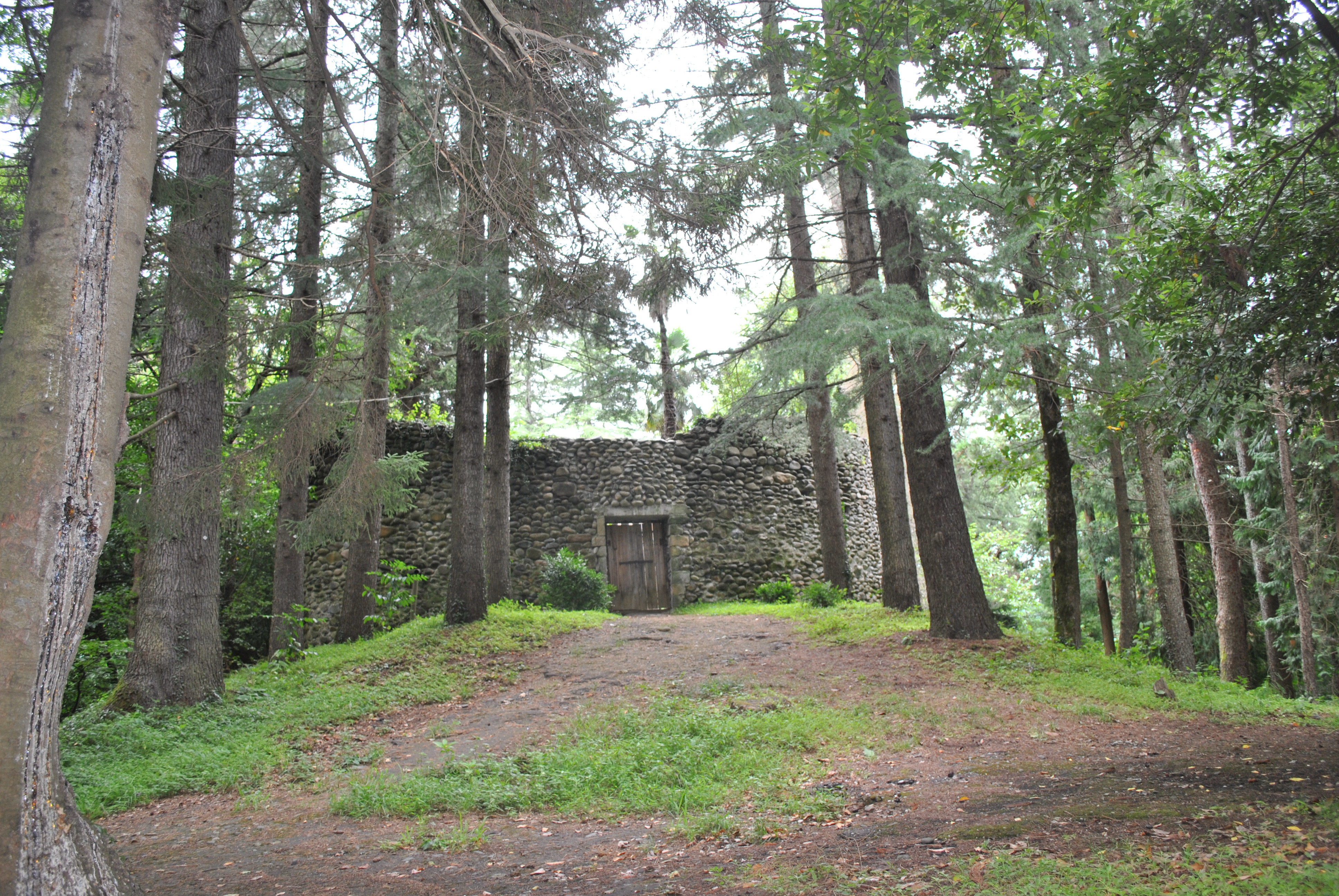 ერისთავების სასახლე სოფელ გორაბაერეჟოულში, XVII ს.